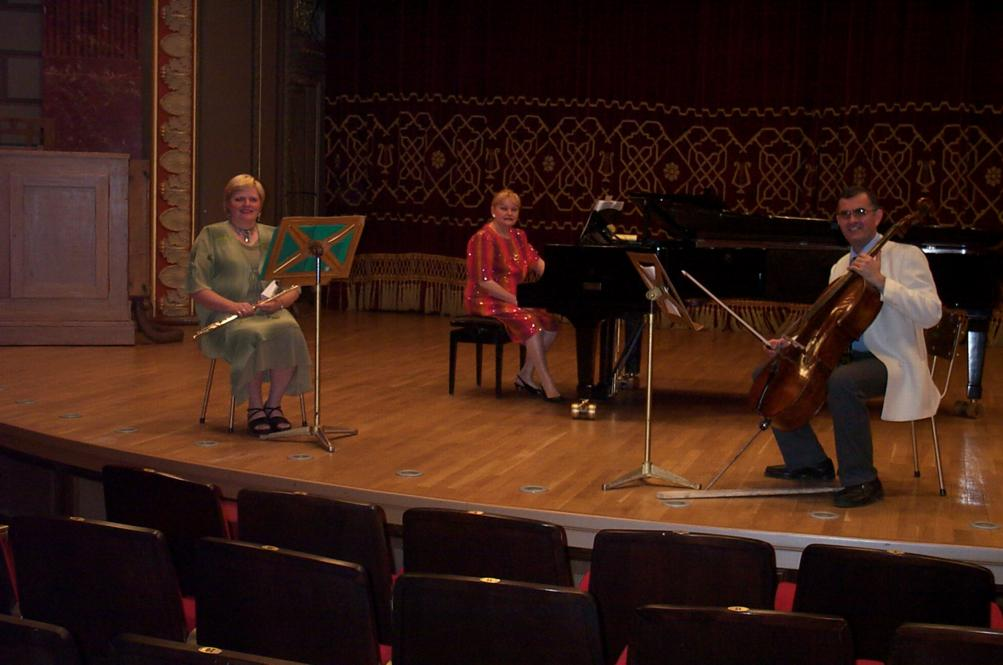 SUSAN McCLELLAN, LIANA ALEXANDRA & SERBAN NICHIFOR, Concert 6-VI-2004